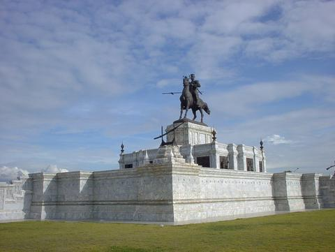 King Naresuan The Great Memorial, Ayudhaya, Thailand